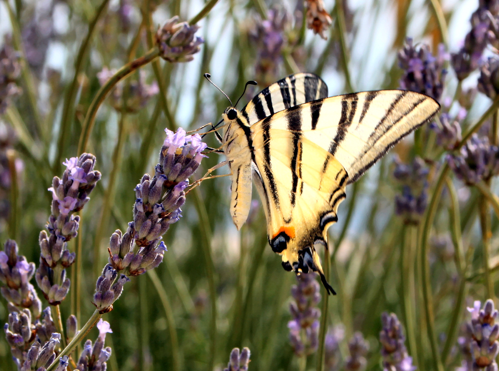 Scarce swallowtail and lavender flowers, near Adriatic coast.